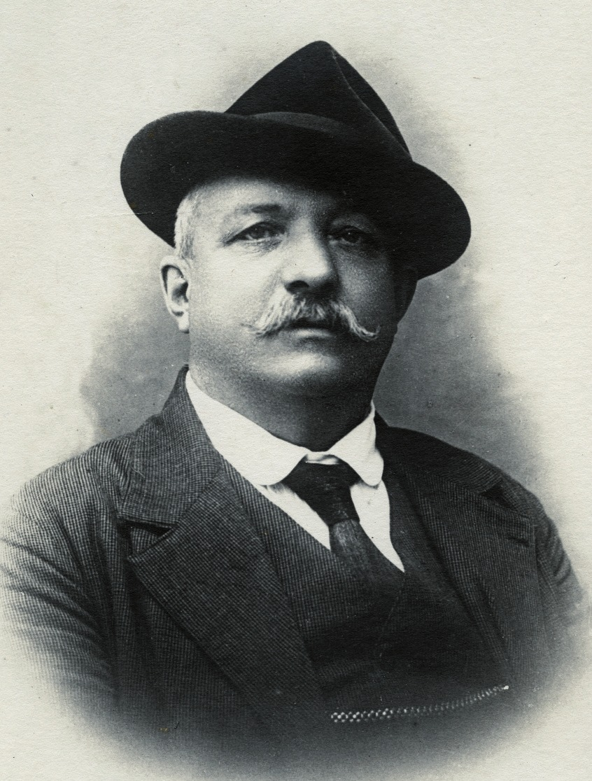 Picture of the Italian composer and poet Arturo Zardini.